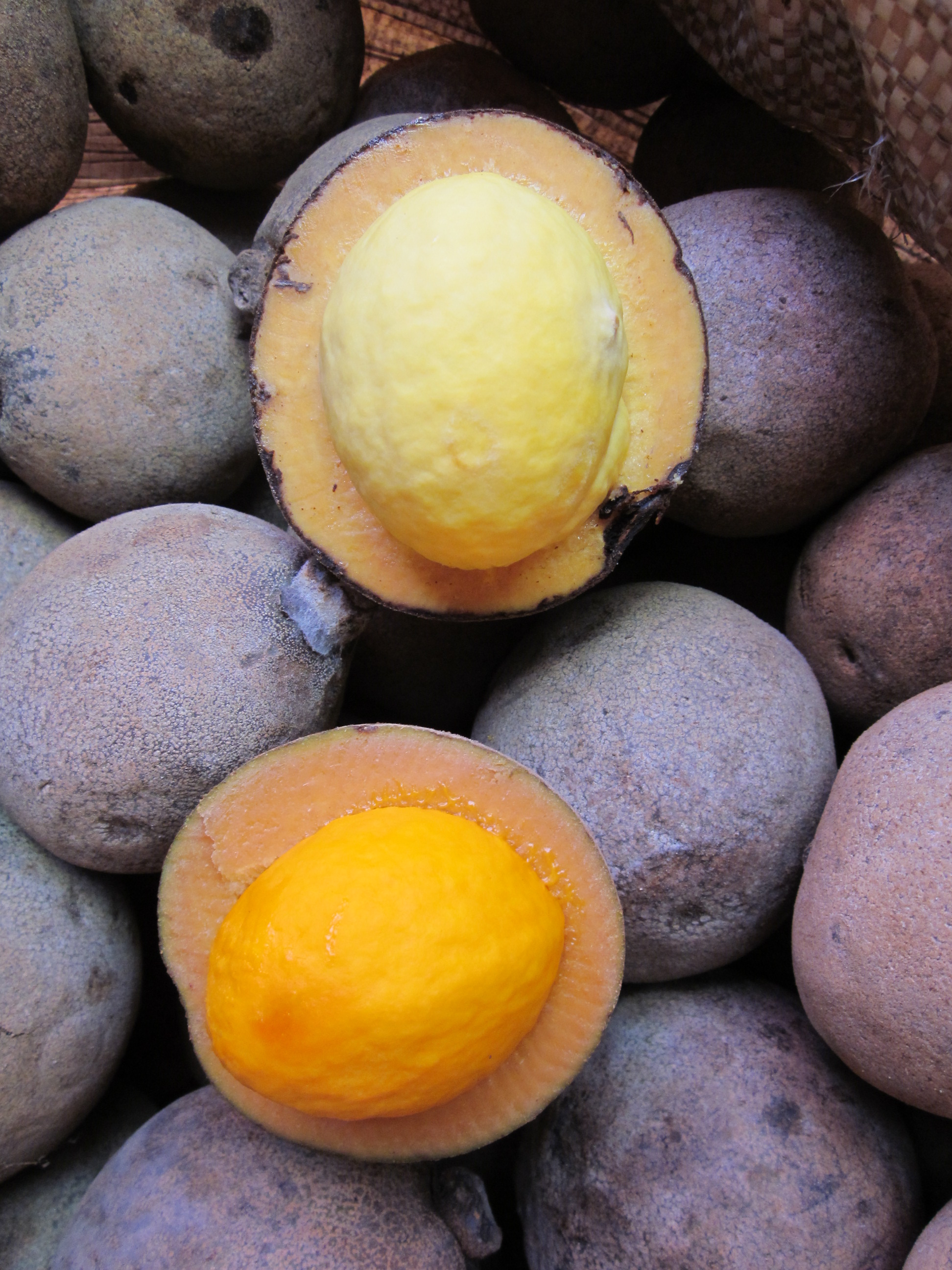 Caryocar villosum fruit